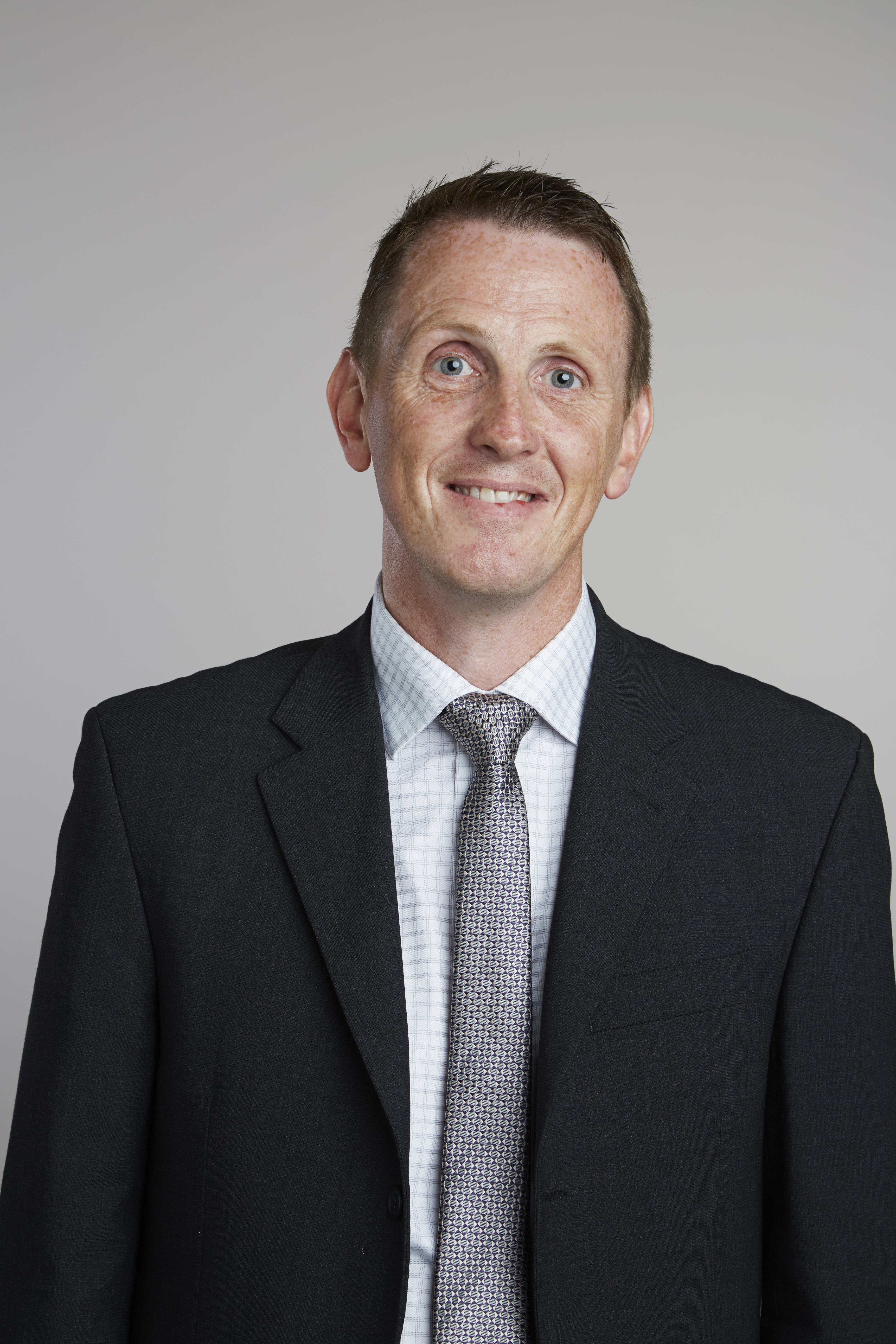 Philip Donoghue is a palaeontologist whose research focuses on major transitions in evolutionary history, including the origin and early evolution of vertebrates, animals, and plants. Phil has been influential in developing a ‘molecular palaeobiology’ in which evidence from living and fossil species, anatomy and molecular biology, phylogenetics and developmental biology, can be integrated to achieve a more holistic understanding of evolutionary history. He introduced synchrotron tomography to palaeontology, and has played a leading role in establishing the role of palaeontology in establishing evolutionary timescales. Phil has been served on the Councils of the Palaeontological Society, Systematics Association, the Micropalaeontological Society and the European Society for Evolutionary Developmental Biology. His research has been recognized by the award of the Philip Leverhulme Prize (Leverhulme Trust, 2004), Bigsby Medal (Geological Society 2007), and the President’s Medal (Palaeontological Association, 2014). Attribution: The Royal Society